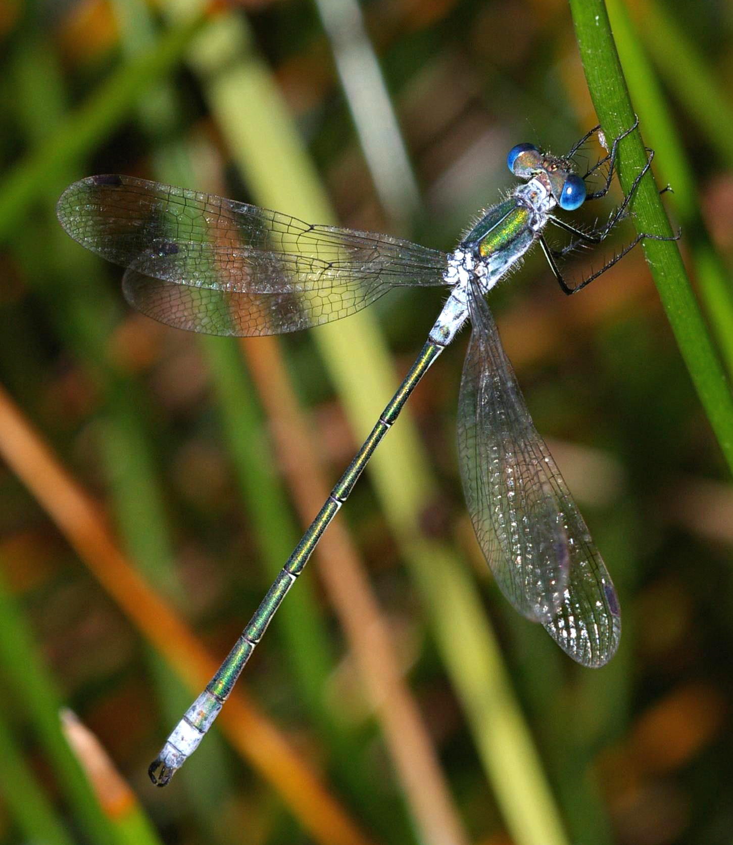 Male specimen of the Emerald Damselfly (Lestes sponsa), sitting on a stalk of rush (Eleocharis palustris).